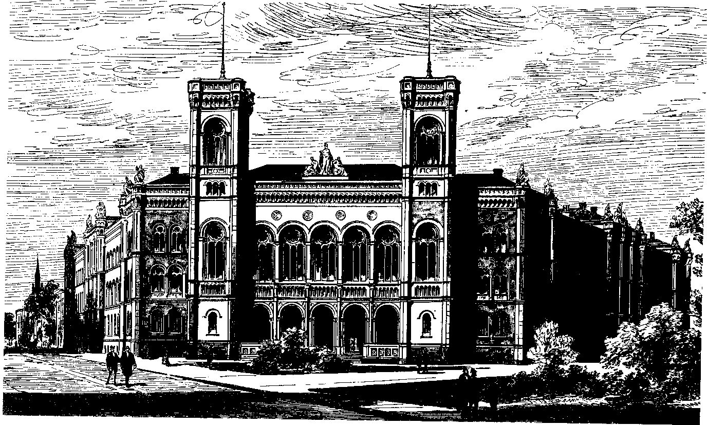 Old criminal court prison in Berlin (Moabit), Germany, built in 1881. Head building as destroyed in 1944. Contemporary ink drawing, published on the occasion of opening in 1881 in an unknown newspaper as of 1882.